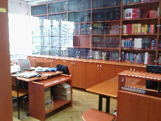 Notranjost Visošolske knjižnice Fakultete za management Koper in Pedagoške fakultete